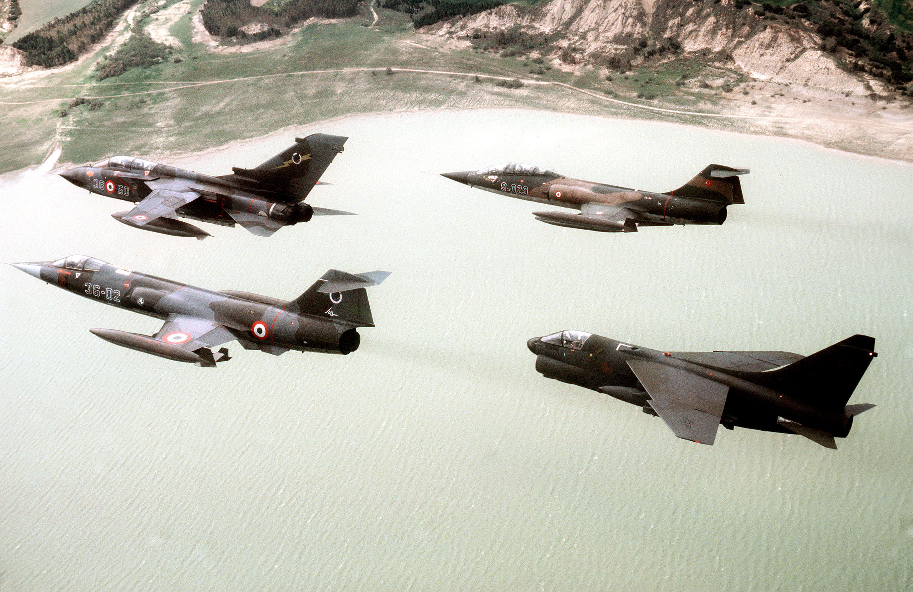 An air-to-air left side view of four aircraft from three nations flying in formation during the NATO's "Dragon Hammer `87" exercise, on 5 May 1987. They are, clockwise from lower left: an Italian Lockheed F-104S Starfighter, an Italian Panavia Tornado IDS (both from 36 Stormo), a Turkish TF-104G Starfighter and a U.S. Air Force Vought A-7D Corsair II aircraft from the 127th Tactical Fighter Wing.